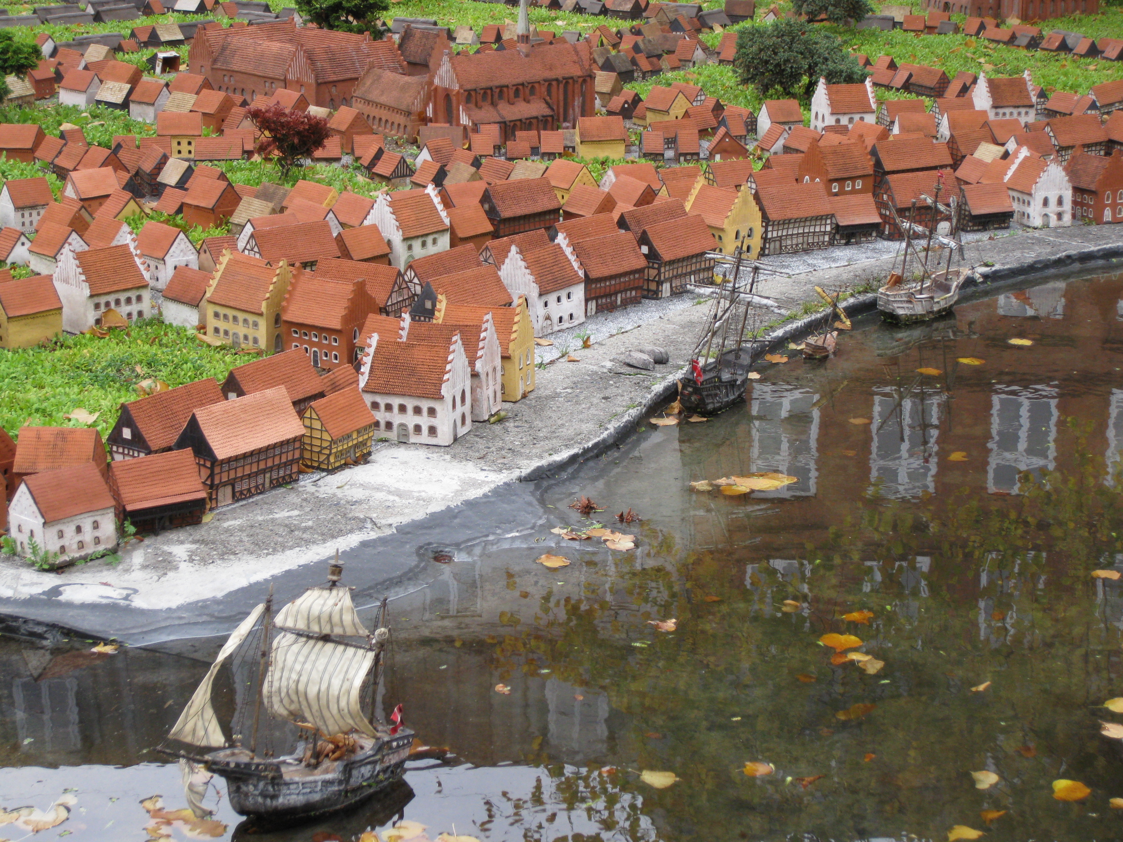 The miniature model of Copenhagen in front of Museum of Copenhagen in Copenhagen, Denmark. The detail shows the original beach, now Gammel Strand (Old Beach).